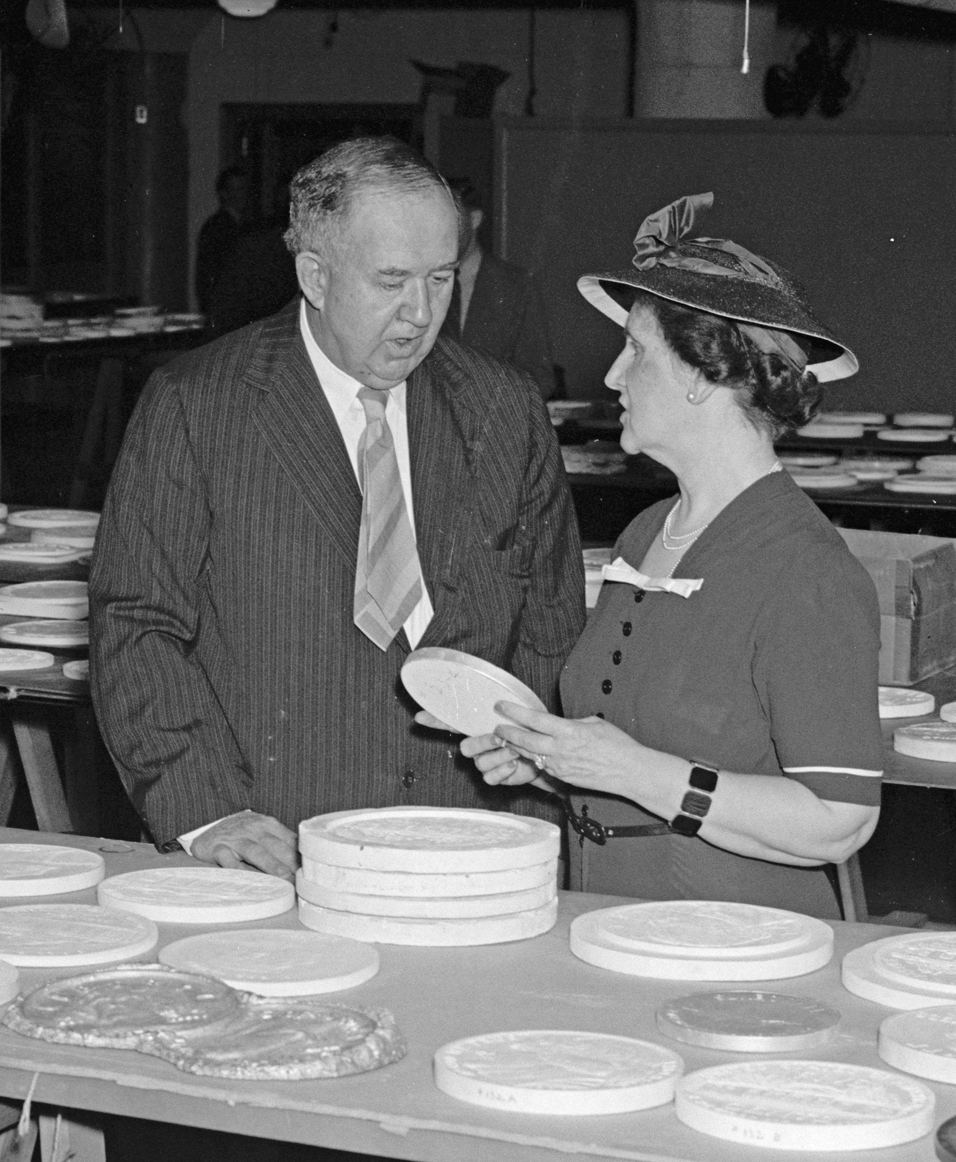 Mrs. Nellie Tayloe Ross, (right) Director of the Mint, and Edward Bruce Chief, Treasury Dept. Procurement Division, Section of Painting and Sculpture, inspect candidates for the design of the new Jefferson nickel, Washington, D.C.